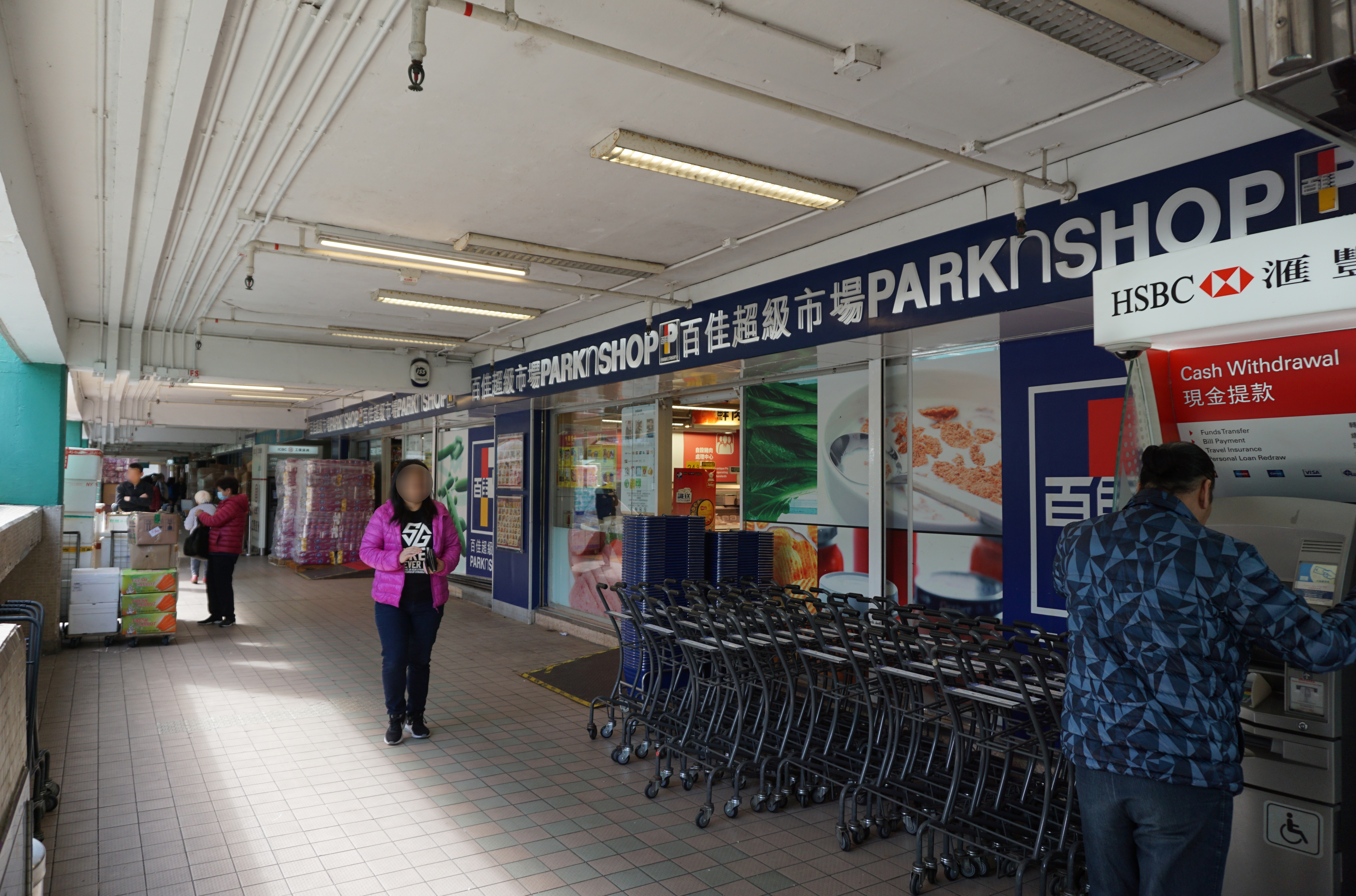 Shek Wai Kok Shopping Centre in Tsuen Wan, Hong Kong.